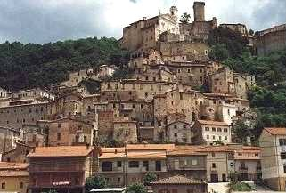 Cantalice - municipalty in the province of Rieti, Lazio, Italy